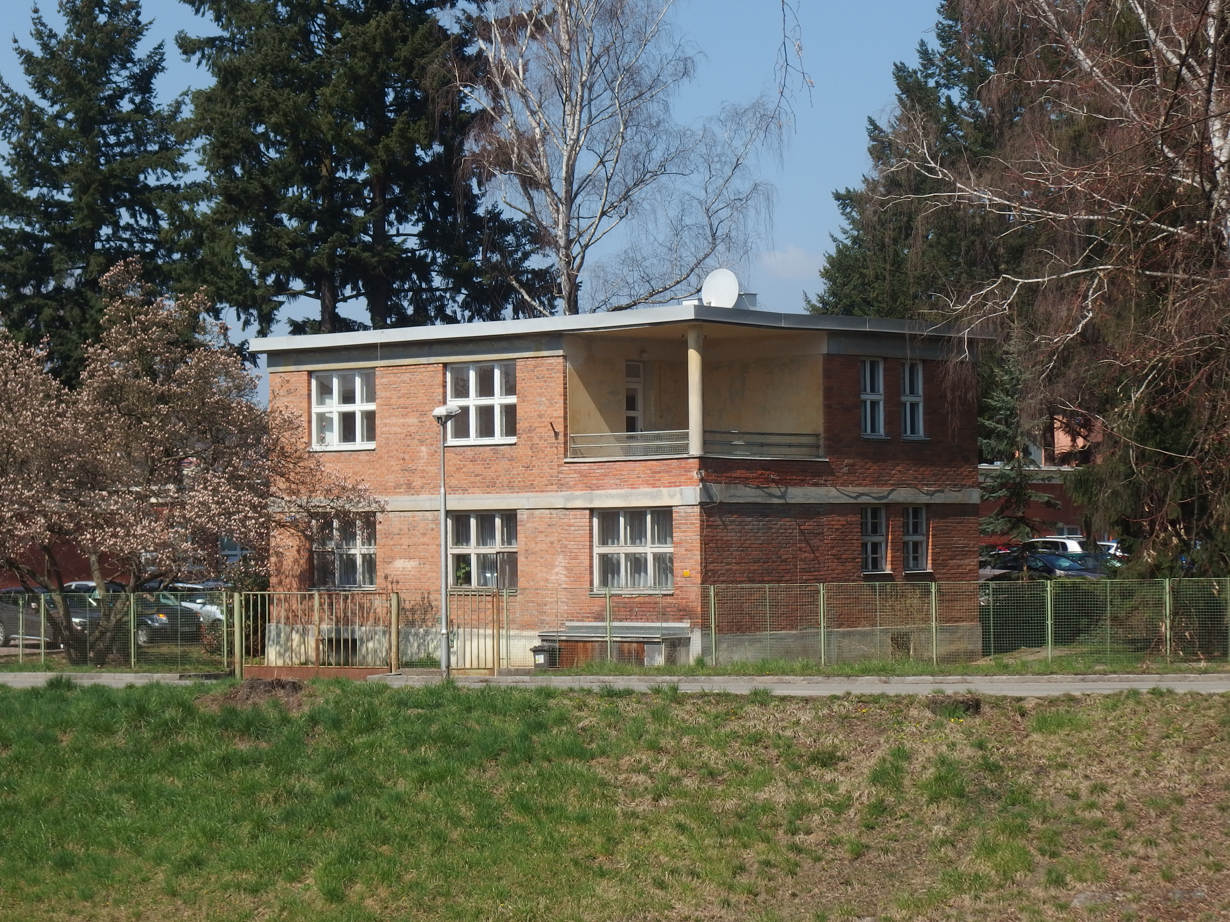 Zlín, Czech Republic. Hospital.